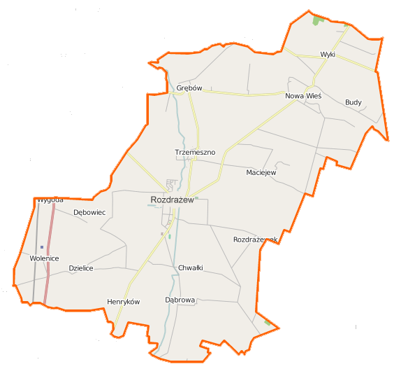 Map of Gmina Rozdrażew, Poland This map of Rozdrażew (gmina) was created from OpenStreetMap project data, collected by the community. This map may be incomplete, and may contain errors. Don't rely solely on it for navigation. Border coordinates51.841717.4195←↕→17.616551.7255